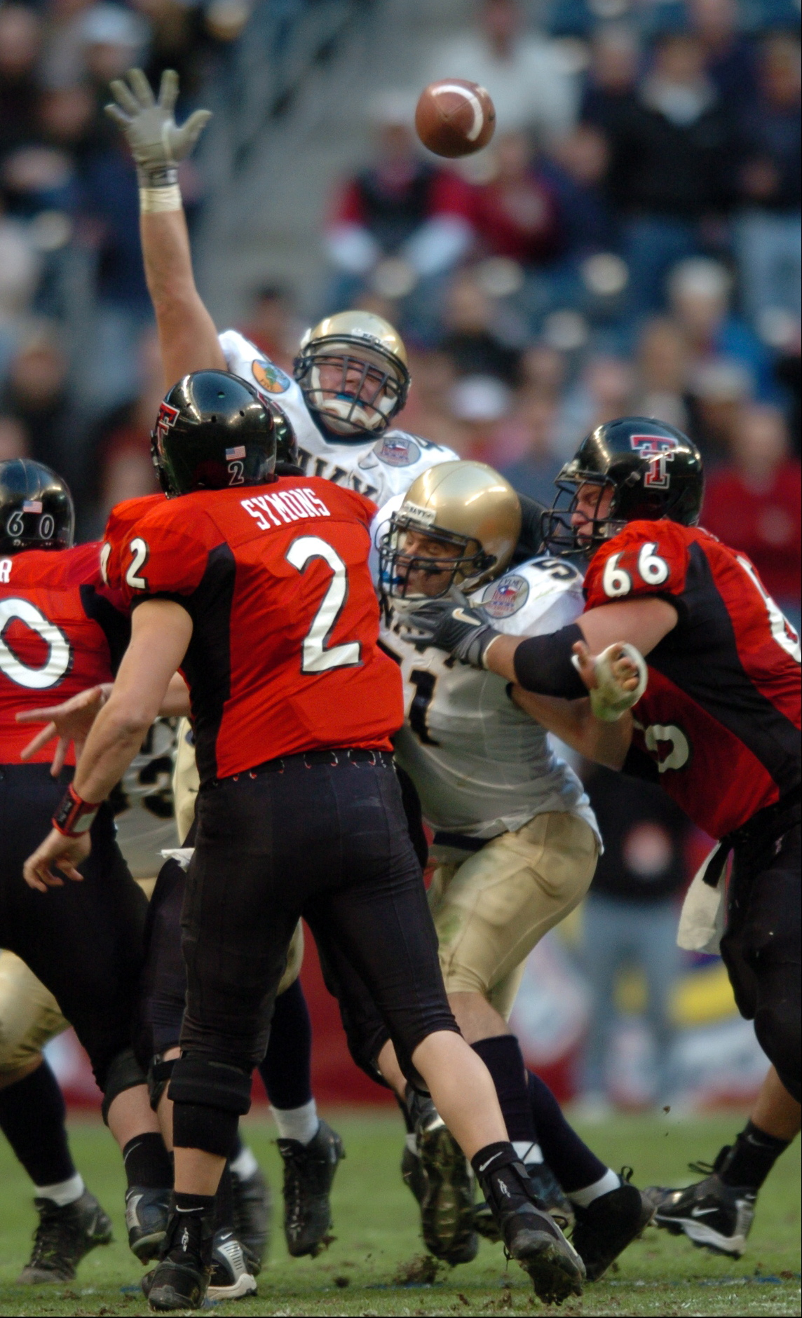 Houston, Texas (Dec. 30, 2003) --Texas Tech quarterback B.J. Symons passes the ball as Navy linebacker Bobby McClarin leaps into the air in an attempt to block during the Naval Academy’s game with Texas Tech in the Houston Bowl in Houston, Texas. The Midshipmen lost to the Red Raiders, 38-14, in the game, Navy’s first bowl appearance since 1996. Navy came into the game boasting the nation’s top rushing attack, while Texas Tech featured the leading passing offense. U.S. Navy photo by Journalist 1st Class James G. Pinsky.